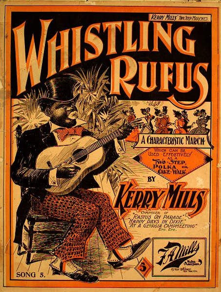 Whistling Rufus, 1899